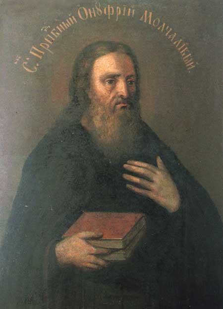 Saint Onuphrius the Silent of Caves - XII century